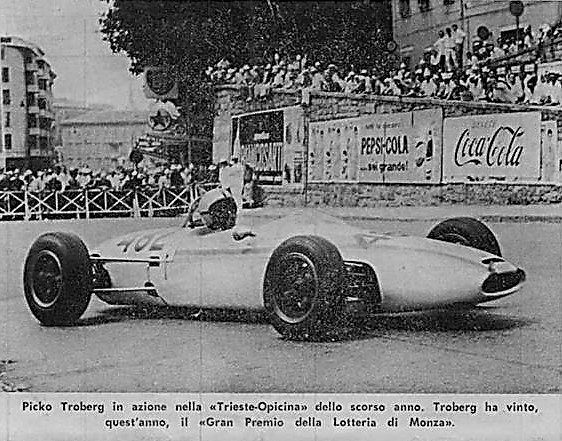 Picko Troberg in his Lola Mk5 at 1963 Trieste-Opicina, where he as entry #482 ended in 4th place.[1] He participated in other years in this and other races around Italy. There is a possibility that this is 1964 or 1965, but Troberg owned the Lola Mk5 in 1963, it was serial number BRJ-56.[2]